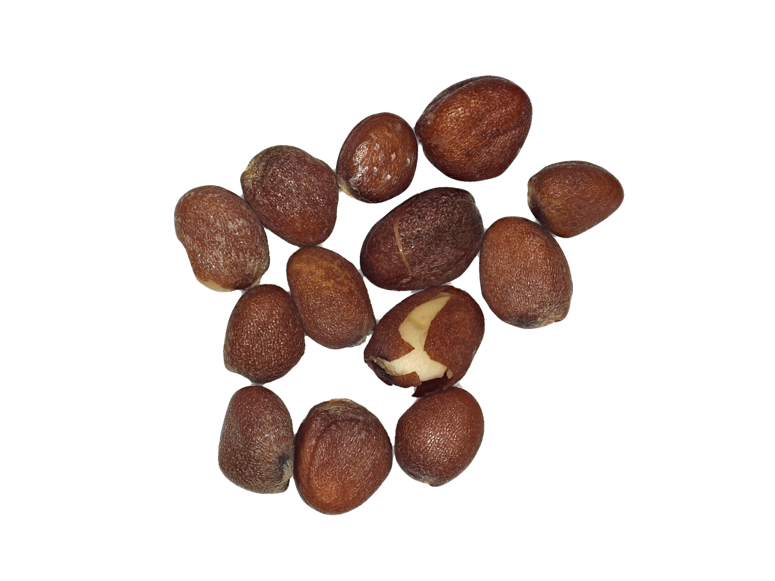 Picture of white radish seeds. Length about 4.8 mm.